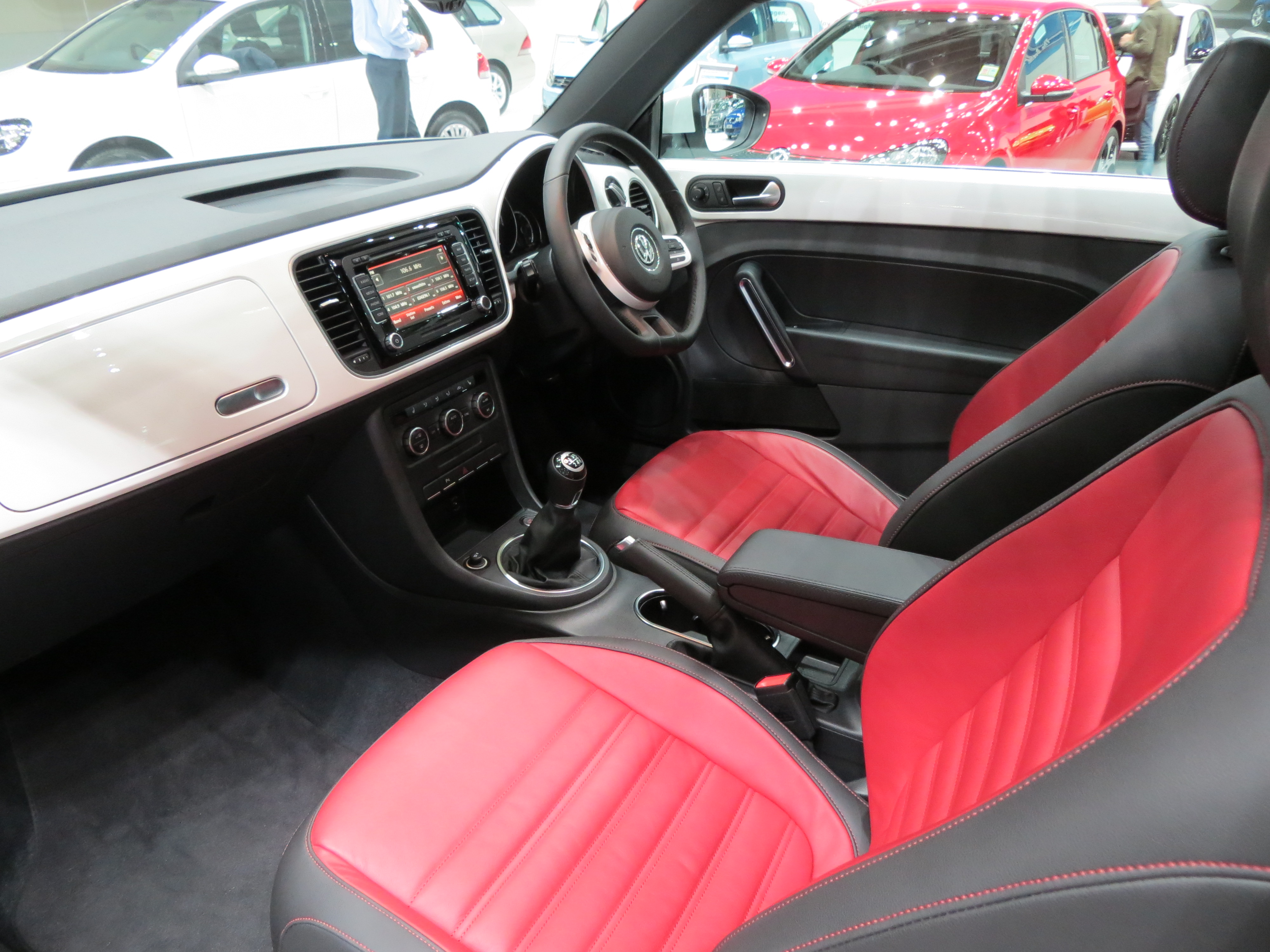 2012 Volkswagen Beetle (1L MY13) coupe. Photographed at the 2012 Australian International Motor Show, Sydney, New South Wales, Australia.